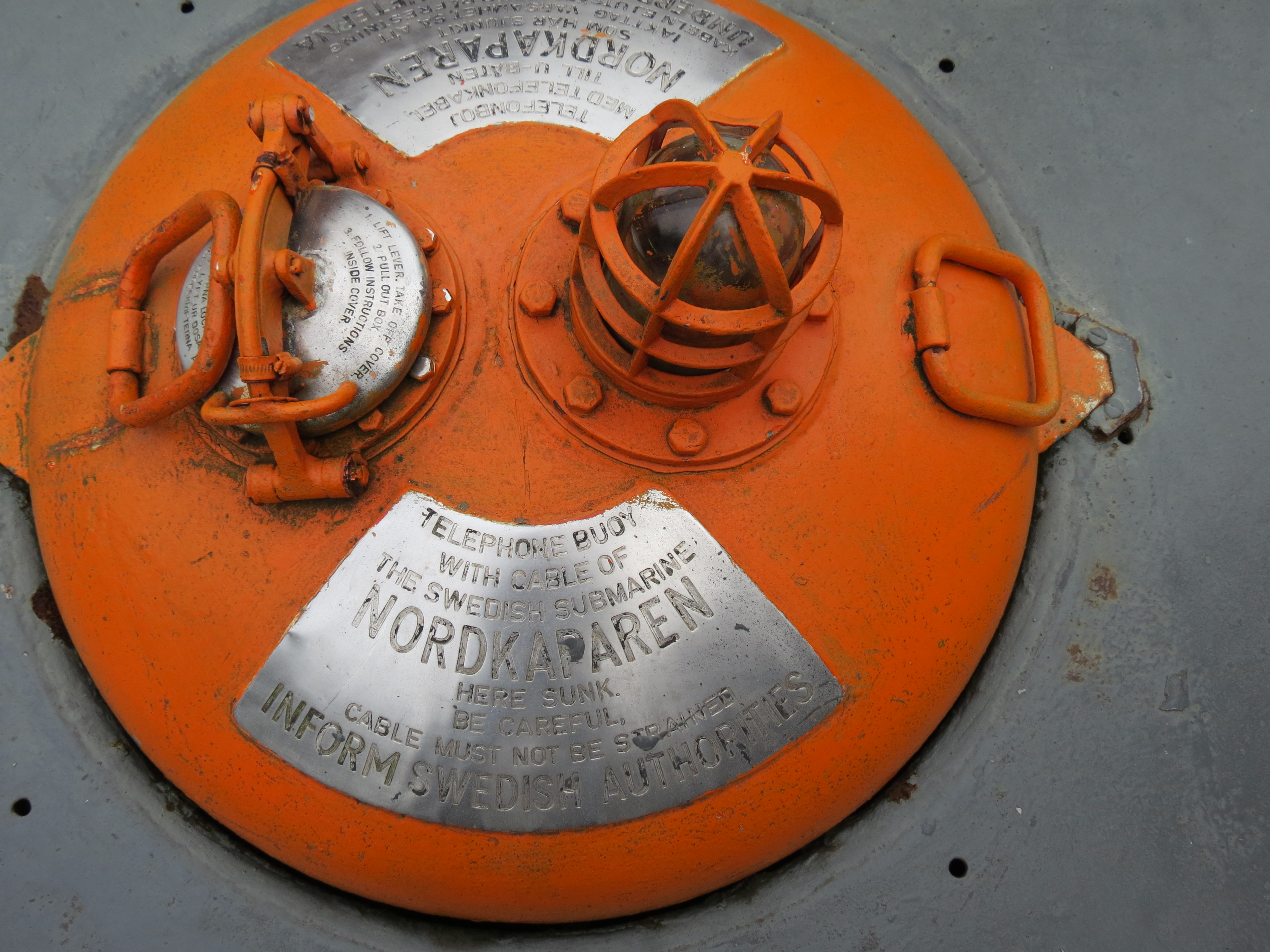 Telephone buoy of the Swedish submarine HMS Nordkaparen (Nor) at the Martitime Museum in Gothenburg.